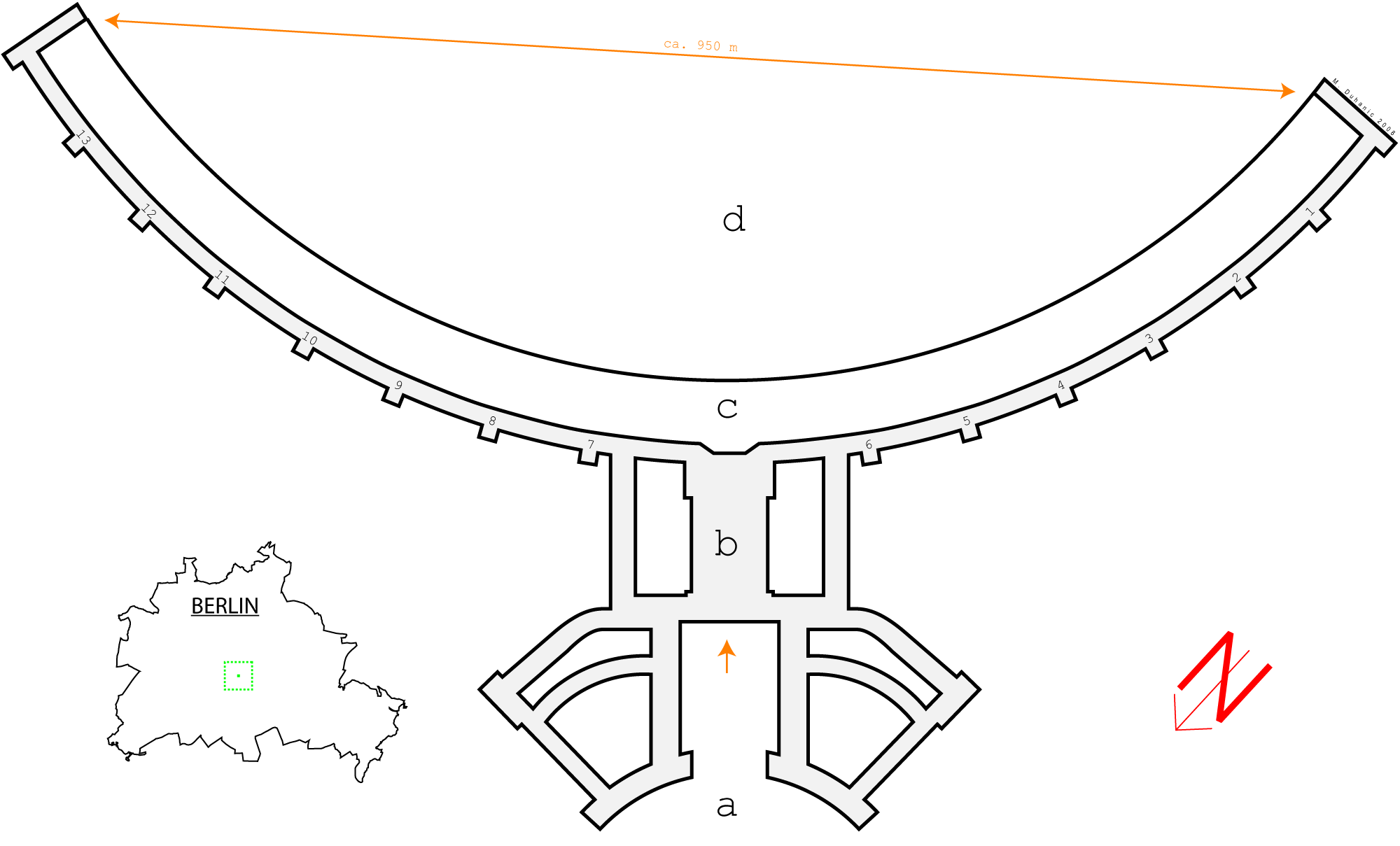 The main building complex of the Airport Berlin-Tempelhof International, IATA: THF, ICAO: EDDI. Small and tiny buildings are not shown on this map. There are two important streets, the "Tempelhofer Damm" going from north to south (the right side of the map) and the "Columbiadamm" going from east to west; both are meeting at the "Platz der Luftbrücke" square (a). An arrow marks the main entrance to the main hall (b). The numbers indicate the thirteen towers, the left (north-eastern) part of the arc has one tower more than the other wing. d marks the apron. c is a roof structure. There are two metro stations, one at the "Platz der Luftbrücke" (a) and one near tower 1.